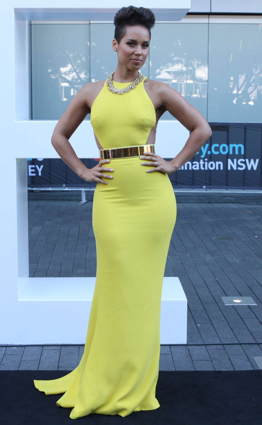 Alicia Keys at the Aria Awards 2013 in Sydney Australia.